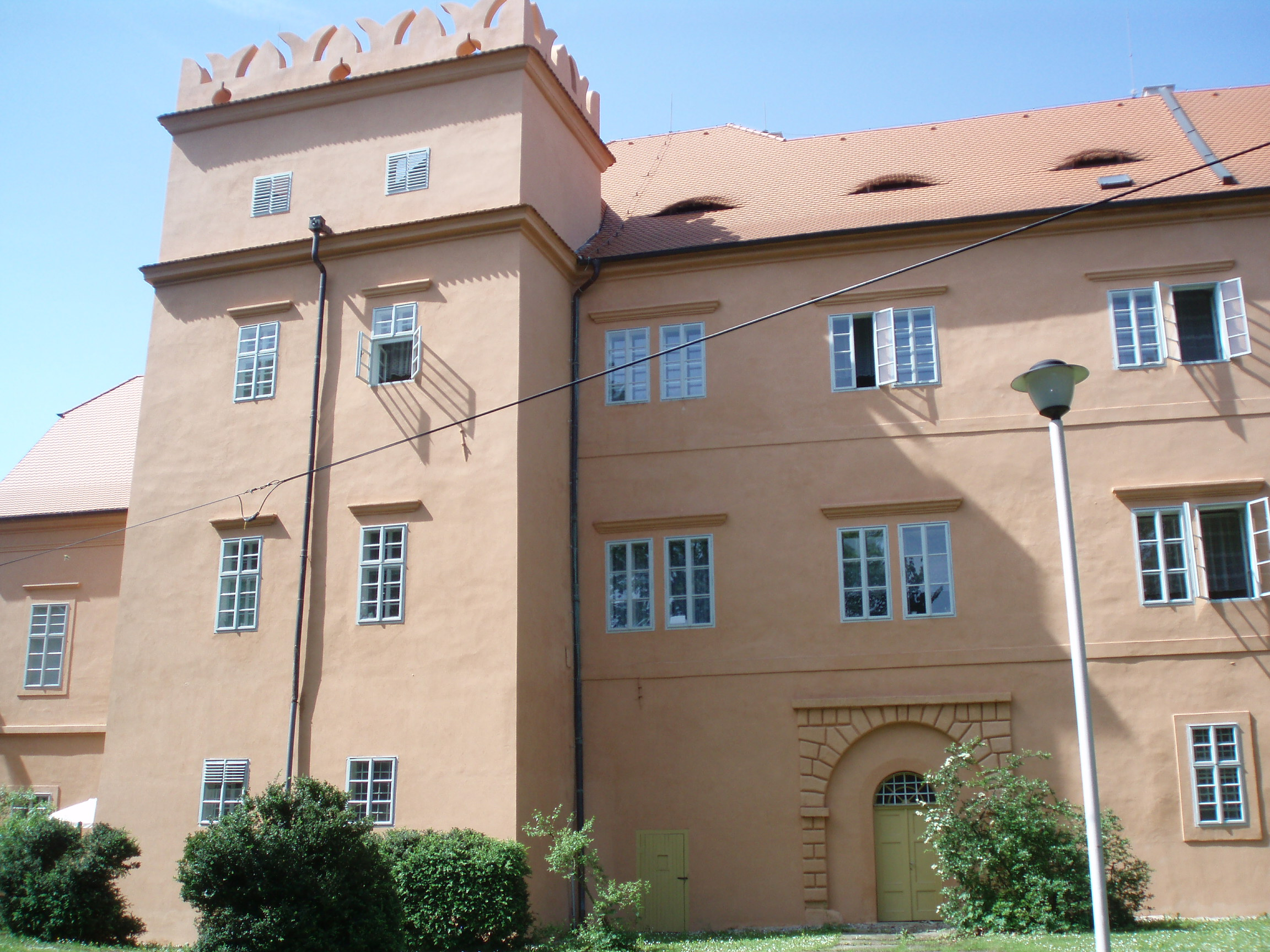 Renaissance tower of Petrohrad castle